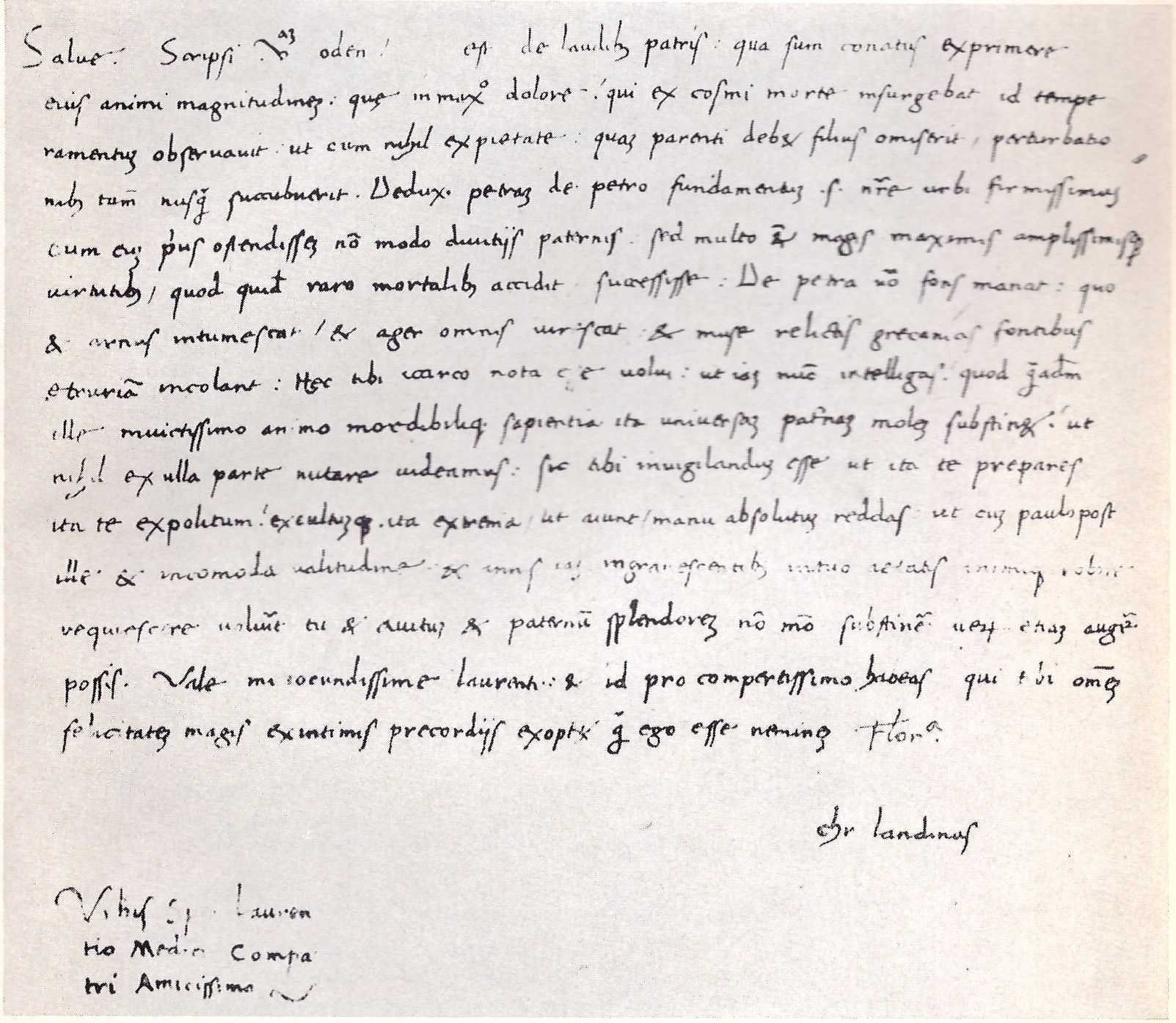 Autograph letter to Lorenzo de’ Medici in the manuscript Forlì, Biblioteca Comunale, Autografi Piancastelli, No. 1238.